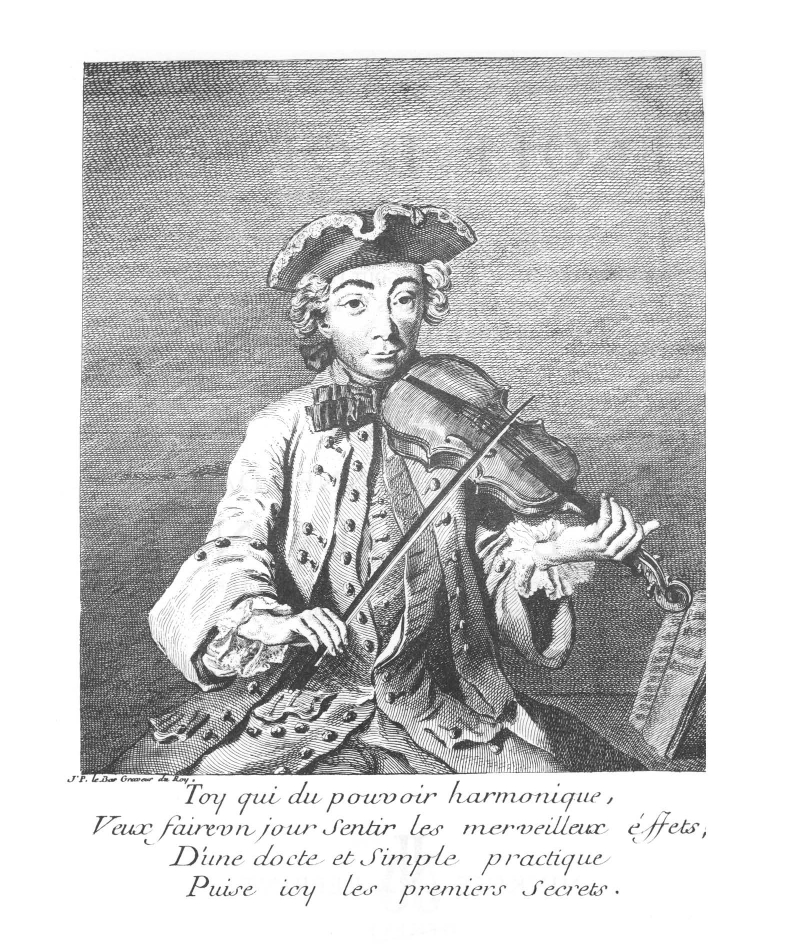 Michel Corrette, portrait from "L'Ecole d'Orphée" (1738)